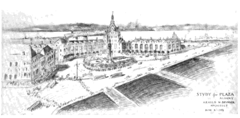 Early design of the Delaware and Hudson Building and the Plaza (the current SUNY System Administration Building) on State Street in Albany, New York, United States